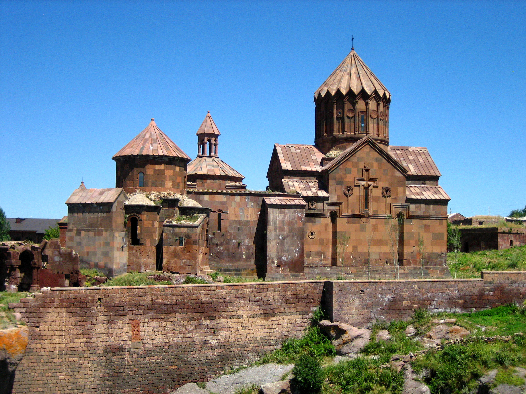 Harichavank Monastery (7th-13th century), Armenia. 63/18.3.5